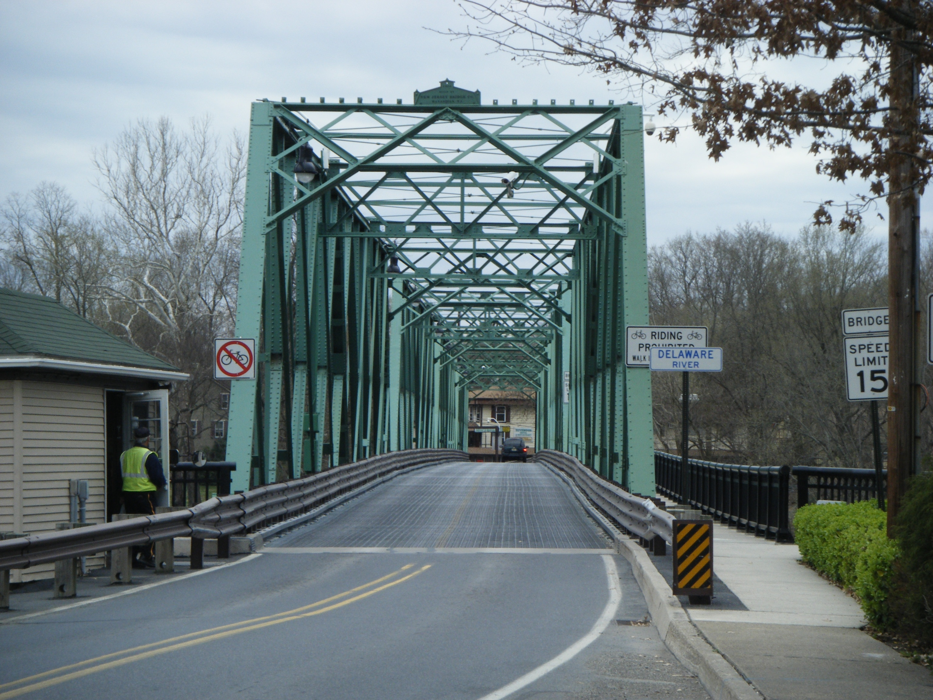 The Riverton-Belvidere Bridge over the Delaware River looking west from Belvidere, New Jersey.